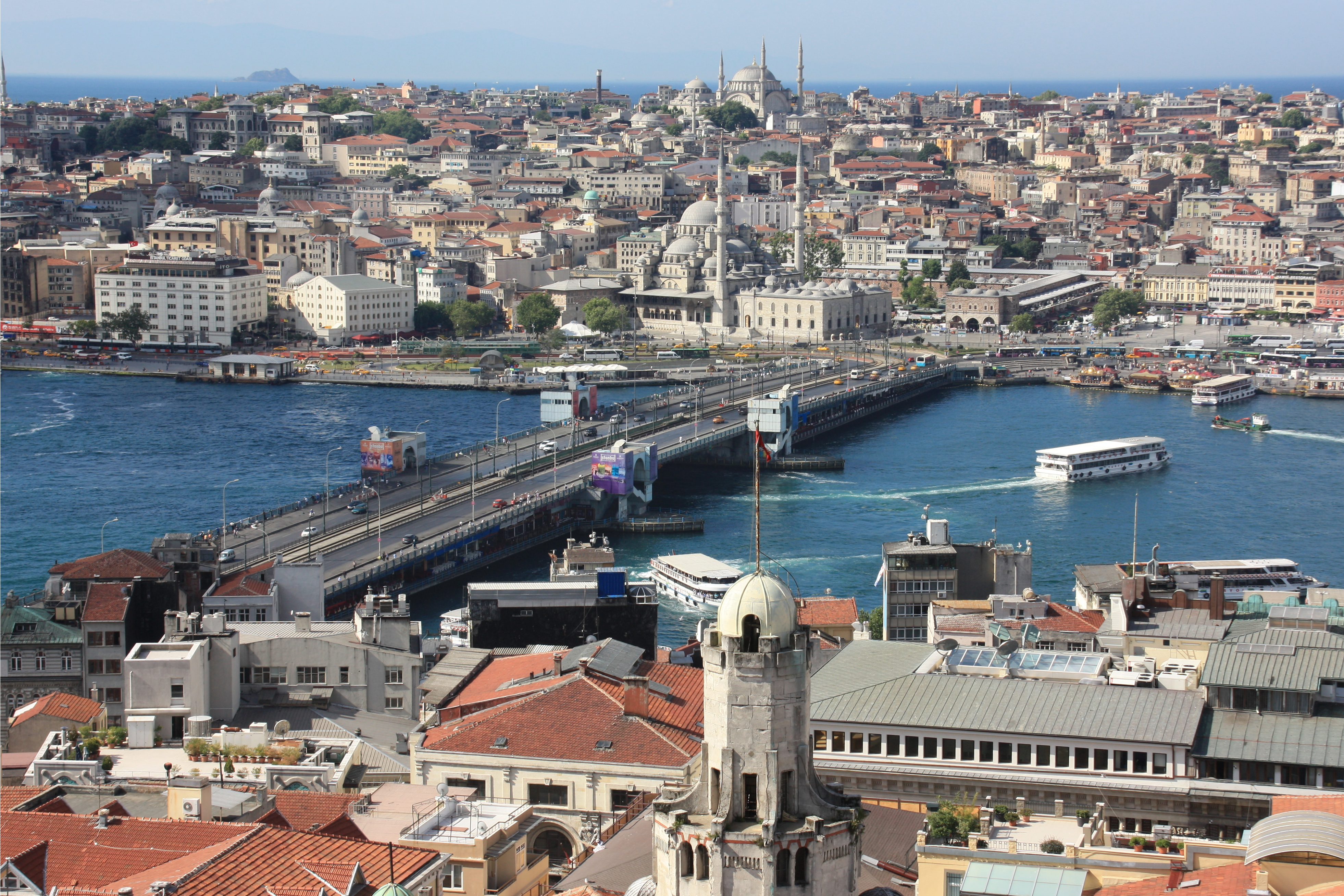 Galata Bridge viewed from the Galata Tower